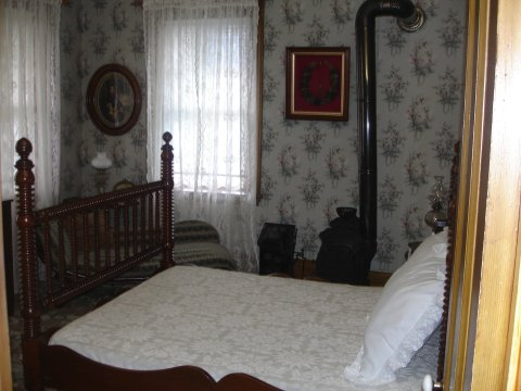 The bedroom for Grant and his wife at the U.S. Grant Home in Galena, Illinois.